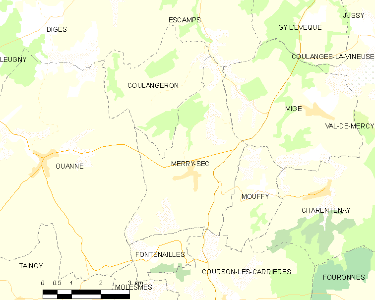 Map of French municipality Merry-Sec